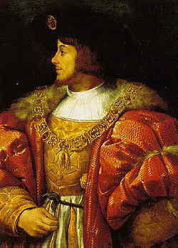 Portrait of Louis II of Hungary and Bohemia (1506-1526)